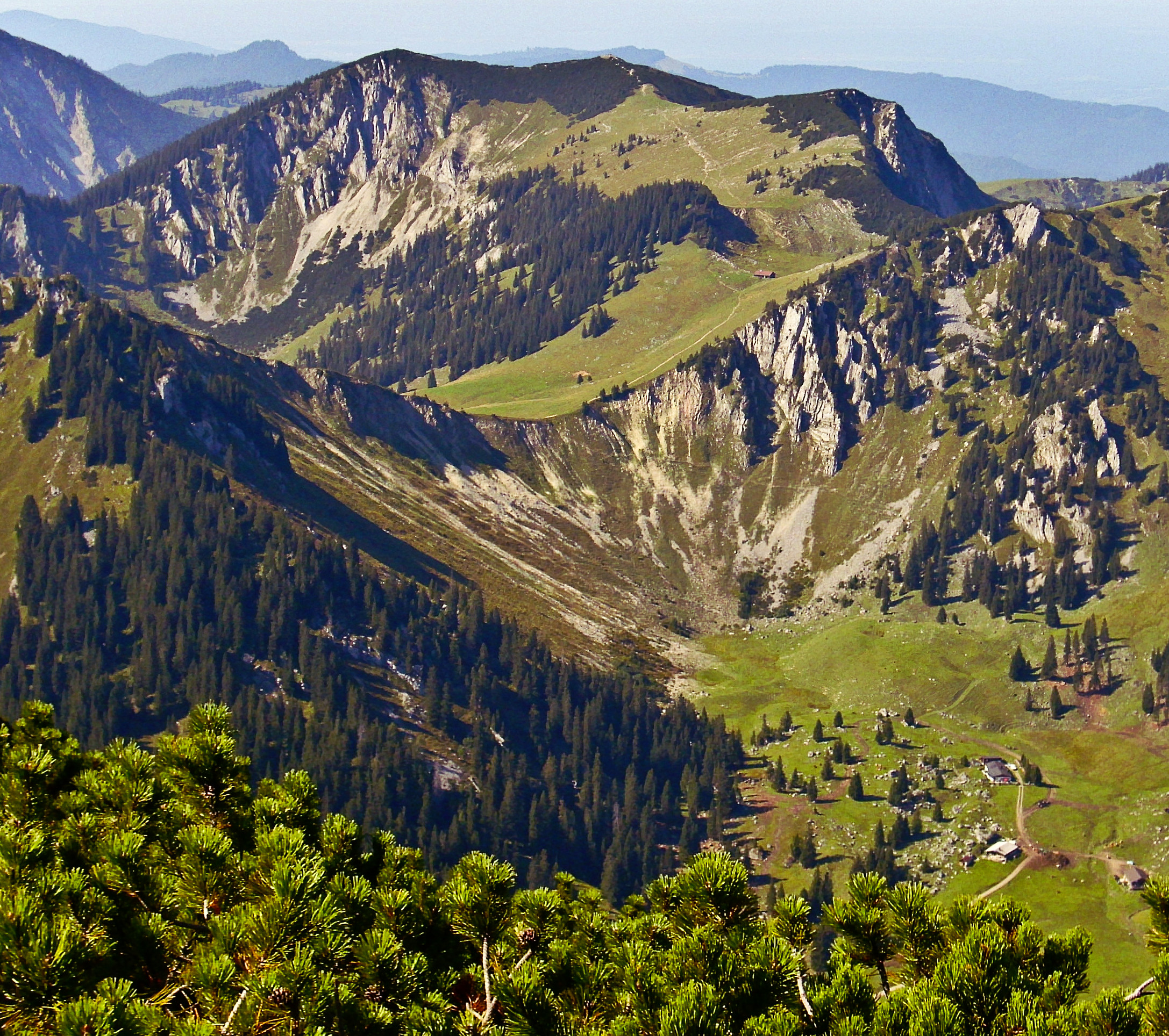 Cirque, southeast mountainside of Aiplspitz